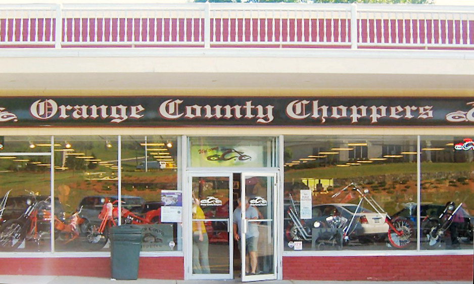 Orange County Choppers store near Montgomery, NY, photographed by Daniel Case on June 5, 2005